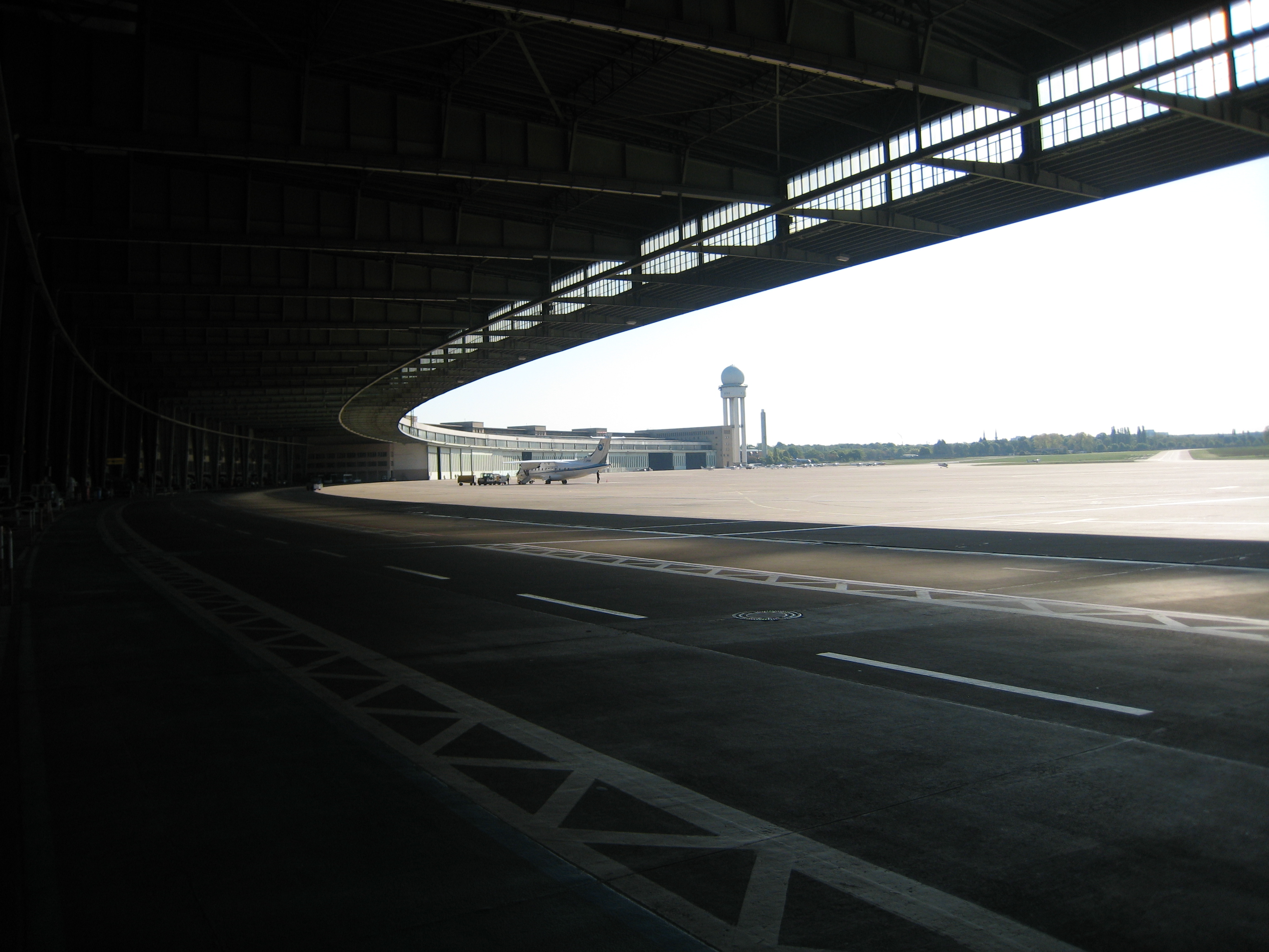 View from the parking at Tempelhof Airport